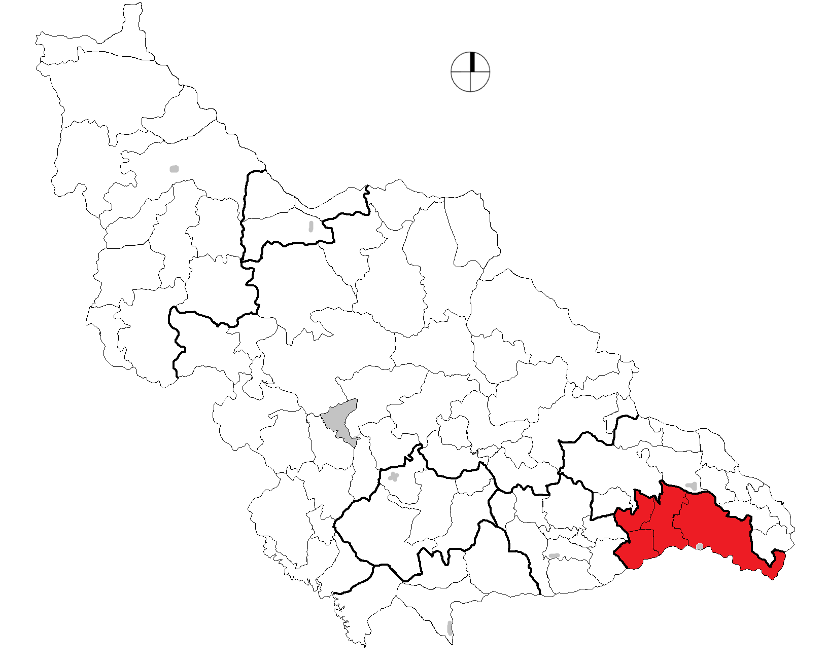 Mapa de El Caney en Santa Rosa de Osos